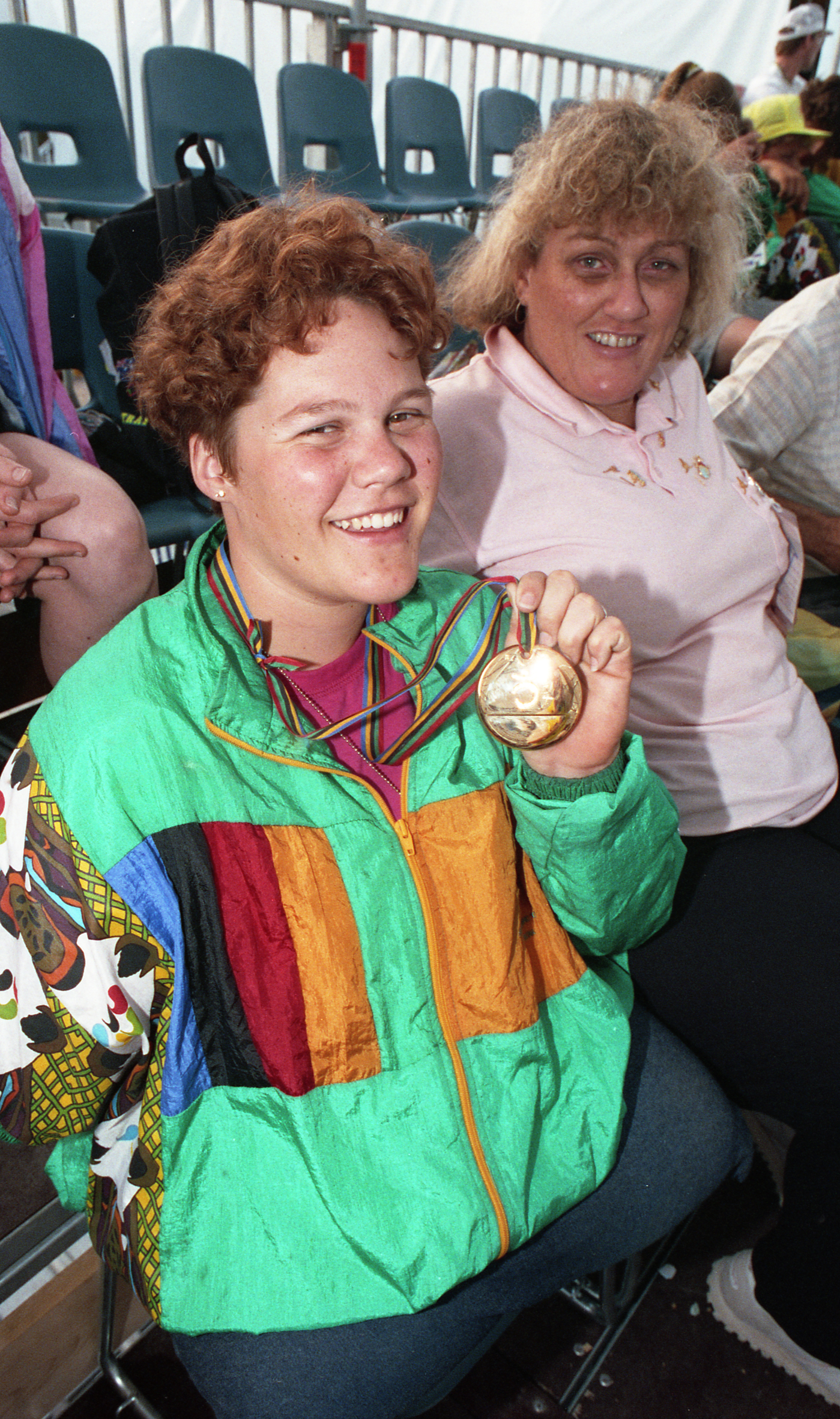 Tracy Lee Barrell, Australian swimmer, holding medal at 1992 Summer Paralympics in Barcelona.